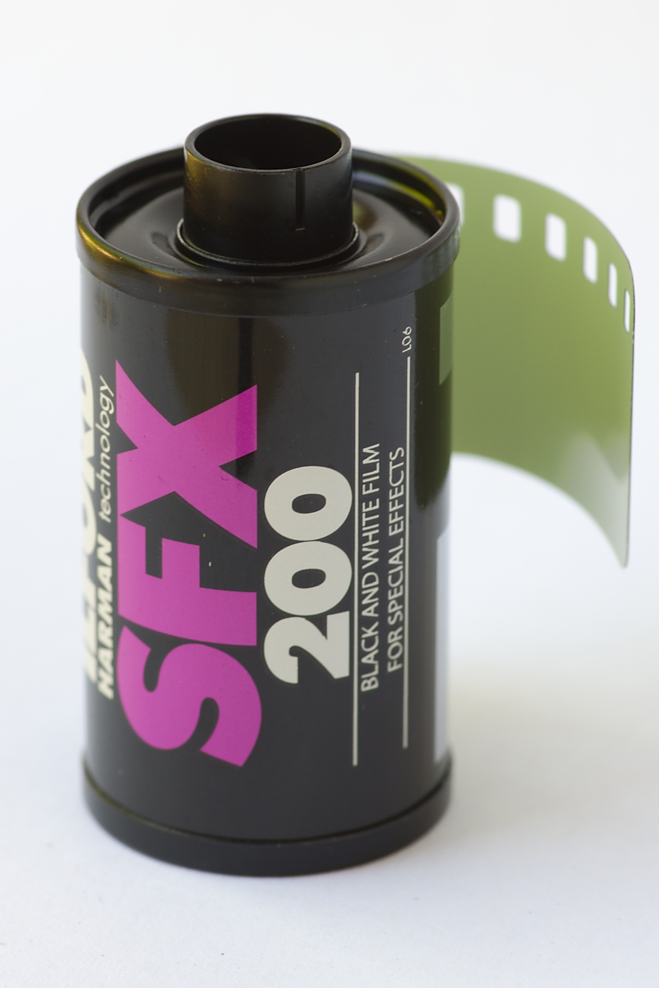 A roll of Ilford SFX 200 special effects Black and White film, expiring in March 2019, DX cartridge barcode: 017354.